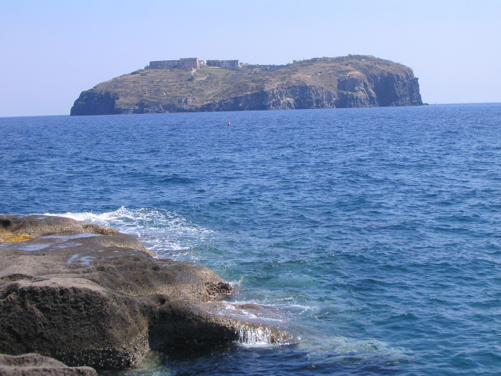 Santo Stefano from Ventotene, Italy.